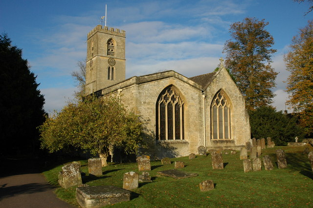 Church of England parish church of St Mary the Virgin, Charlbury, Oxfordshire: view from the southeast